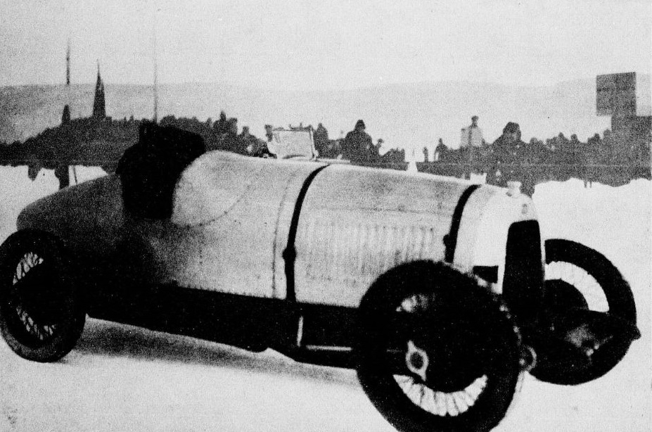 Ice racing at Gjersjøen outside Oslo, Norway in February 1926. Robert Benoist drives a 1923 5-litre V12 Delage DF "Torpille" (french for "Torpedo"), 190 hp, which supposedly was owned by his friend Rene Thomas.[1] Only two cars in this heat (the other did not finish), so Benoist won (5 times 3 km track). He was invited as a marketing stunt for the Delage dealership in Oslo (Gustav Thrane Steen) and "stole the show"[2][3] One report says the car had an engine fire[4]